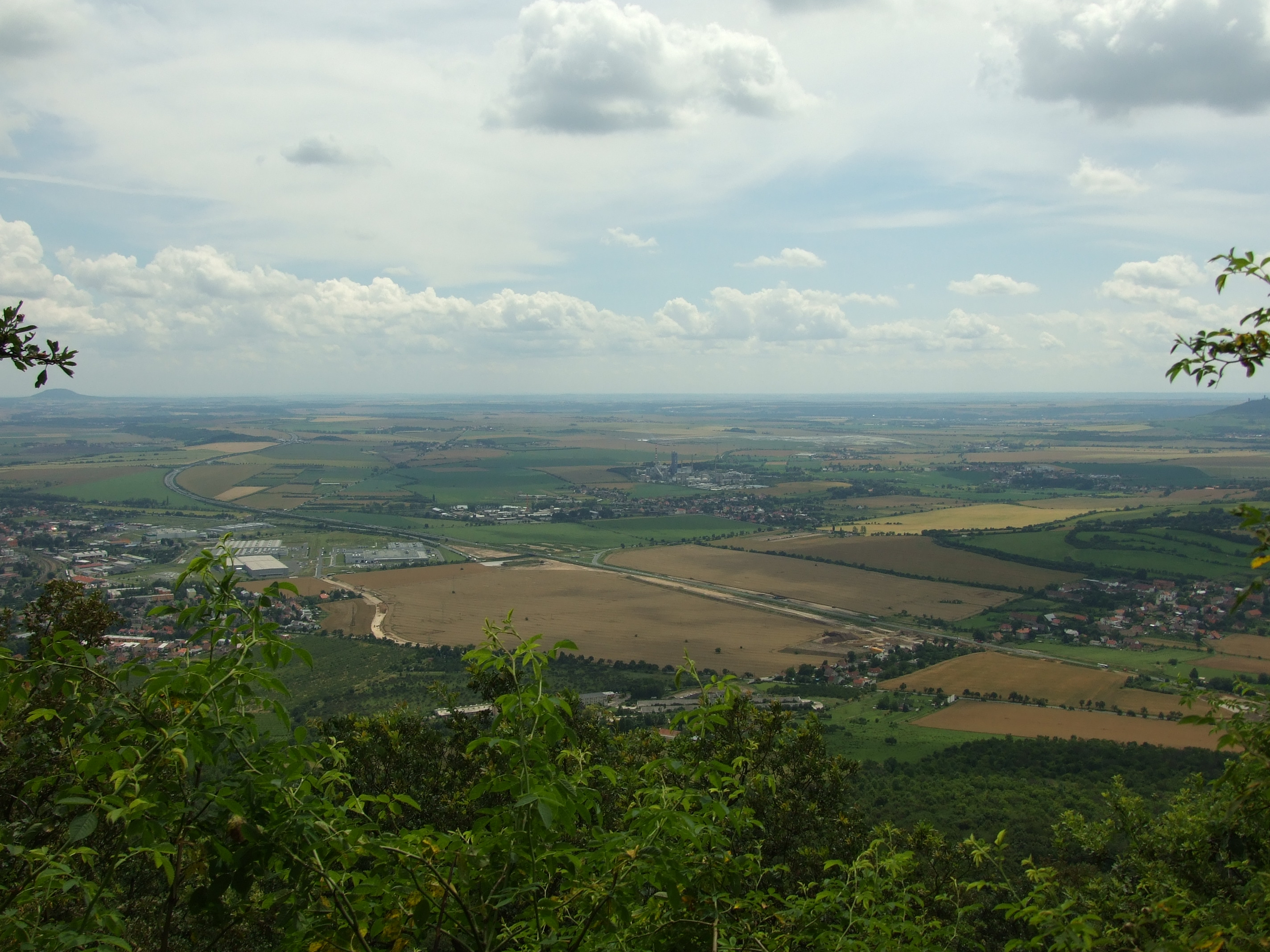 Czech countryside seen from Lovoš hill near Lovosice, Litoměřice district, Ústí nad Labem Region, CZ